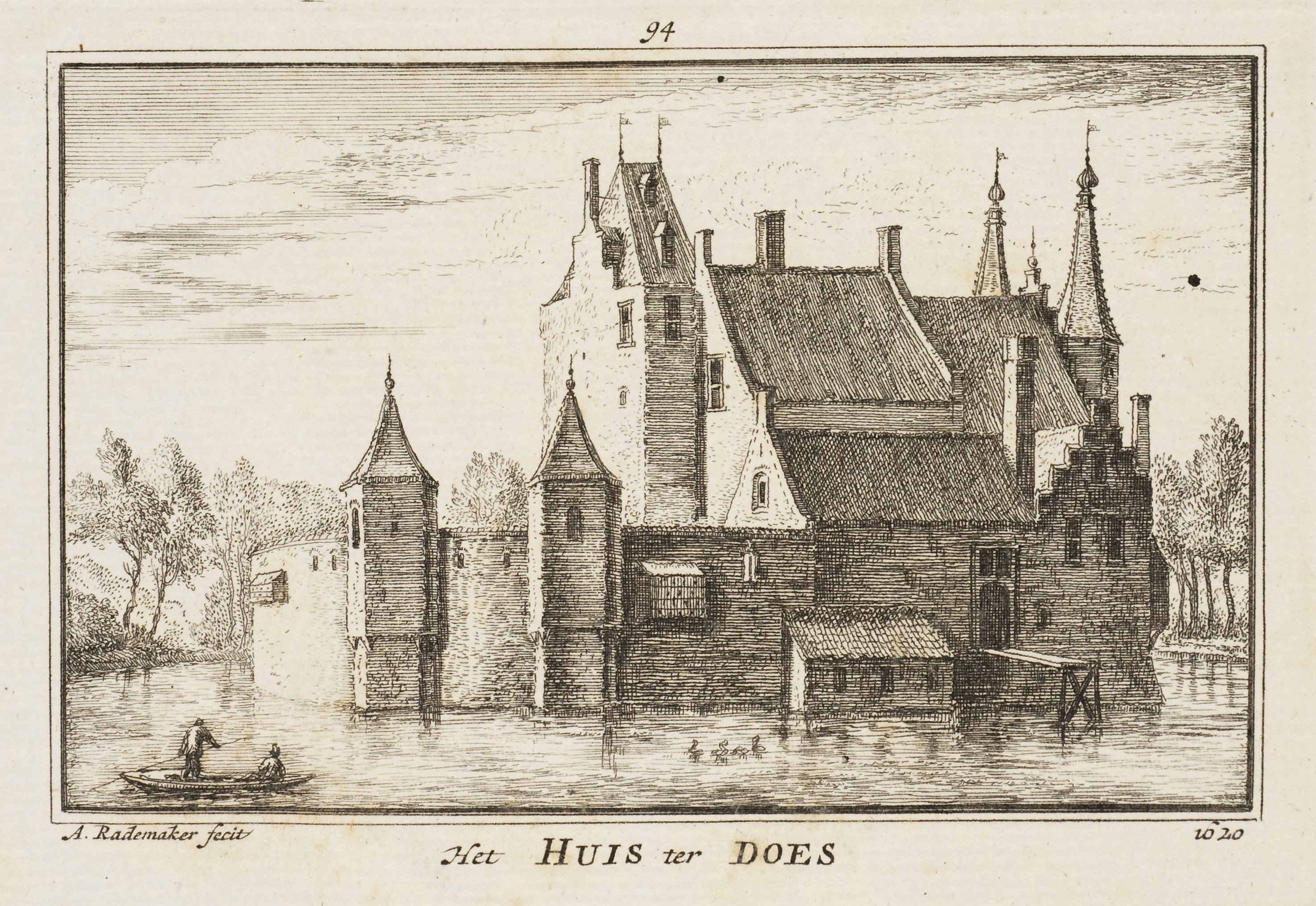 Does Castle (or: the House of Does) stood in Leiderdorp (near Leiden, Netherlands) near the mouth of the Does canal. It was built before 1300 and demolished around 1740. Only the outlines of the former moat and some old garden walls are still recognizable. The image is from a series of separately printed engravings, two on one sheet, by A. Rademaker, issued and sold prior to being included in a book edition in 1725.